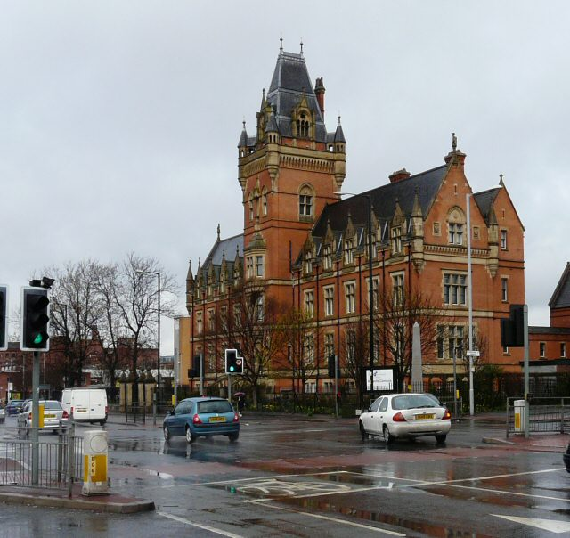 Nicholls Hospital Nicholls Hospital was founded in memory of John Ashton Nicholls (son of cotton merchant Benjamin Nicholls) who died aged only 36 (1823-1859). It was completed in 1881 and served as a school for poor boys of the area. During WWII it was used as a barracks. In 1953 it became Nicholls County Secondary School for Boys and later became part of Ellen Wilkinson High School. Now known as Nicholls House, in 2002 it became part of Manchester College.